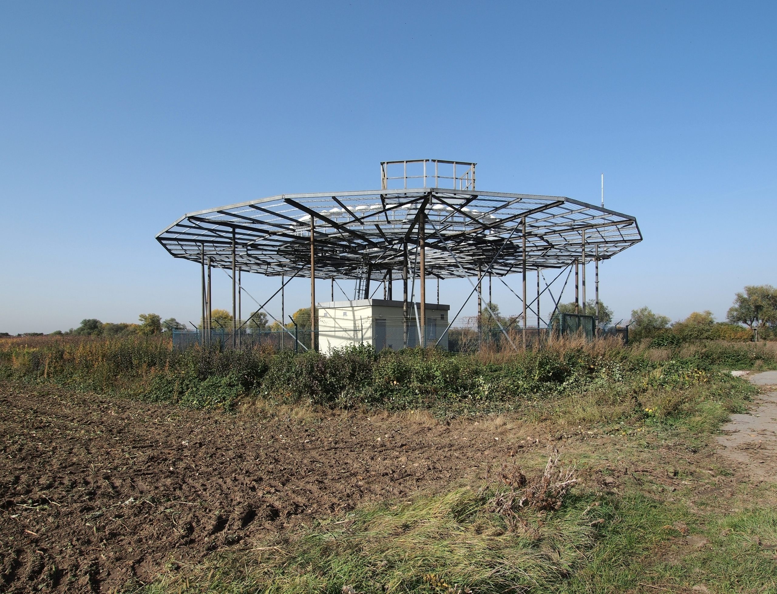 Ried VOR near Pfungstadt-Hahn, Germany